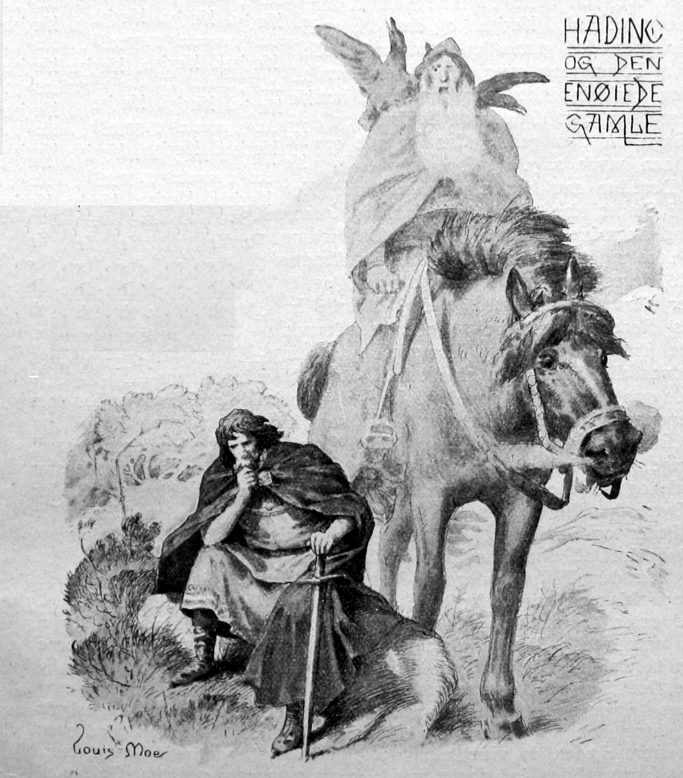 Hading og den enøjede Gamle. The scene is described in Gesta Danorum in the following way: "Hadding, thus bereft of his foster-mother, chanced to be made an ally in a solemn covenant to a rover, Lysir, by a certain man of great age that had lost an eye, who took pity on his loneliness." Elton's translation